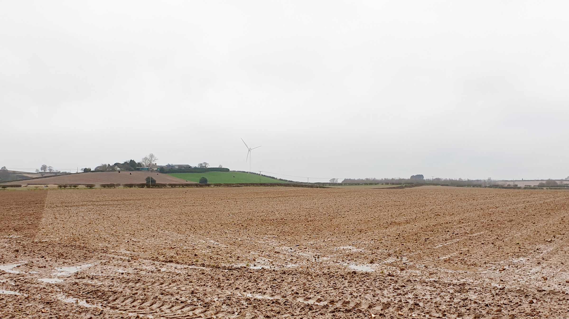 Farnsfield Site of Roman Camp